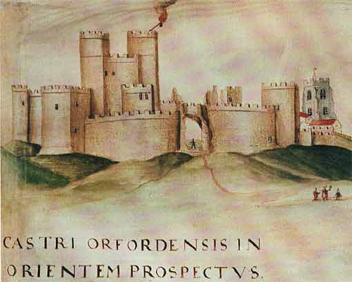 A 1600